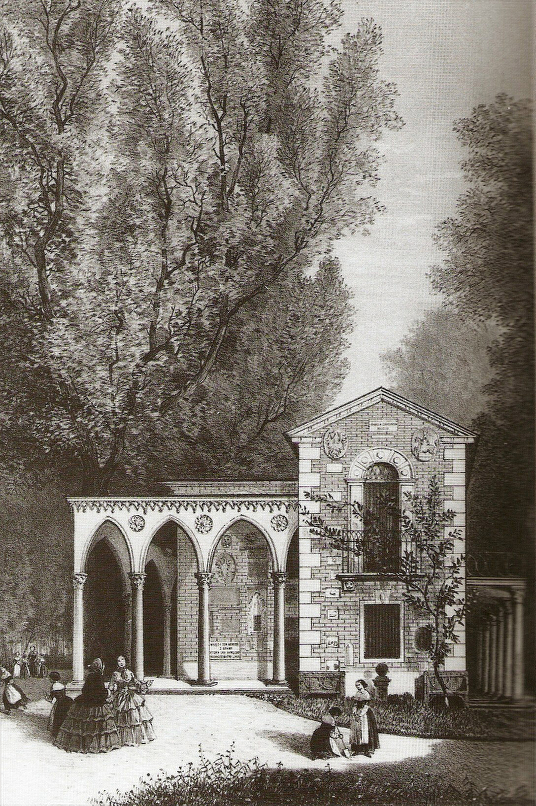 Gothic House in Puławy, Poland